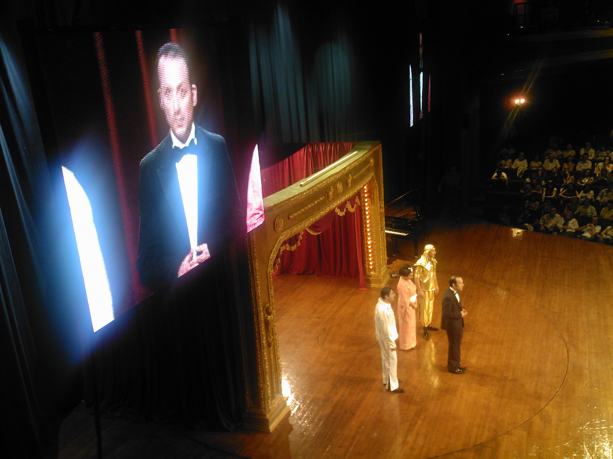 Tolga Cevik in Komedi Dükkanı, 2008